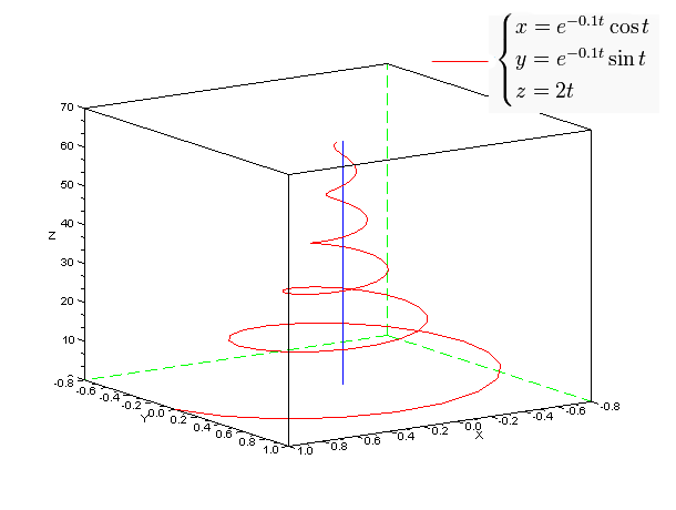 3D plot of function and its asymptote